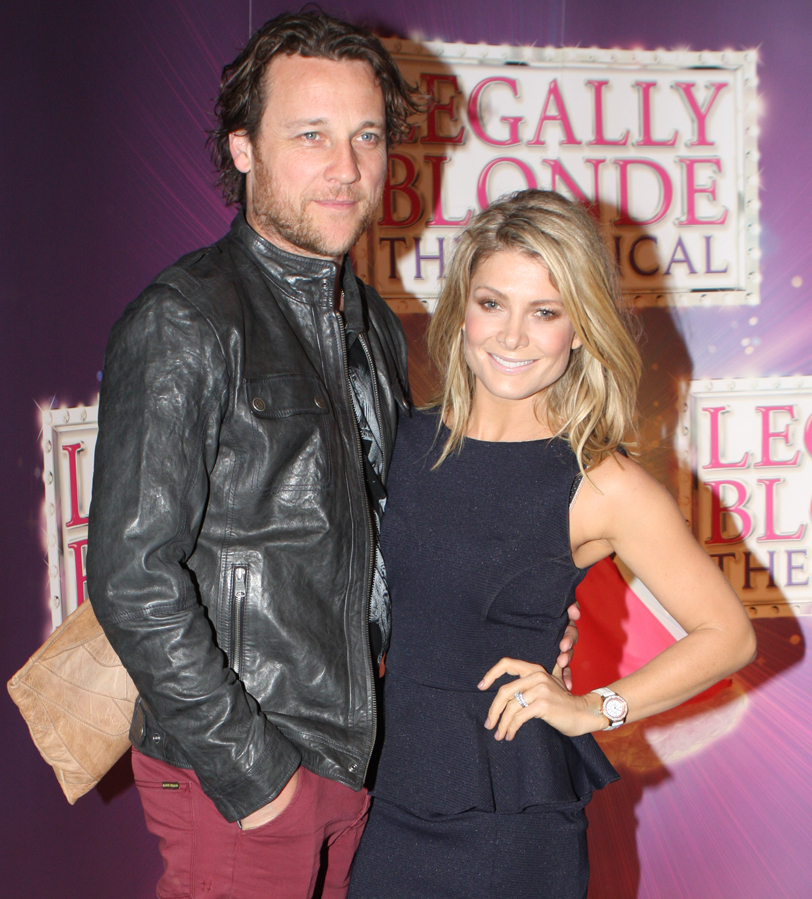 Natalie Bassingthwaighte with husband Cameron McGlinchey at the Gala World Australian Premiere Purple Carpet - Legally Blonde 2012.